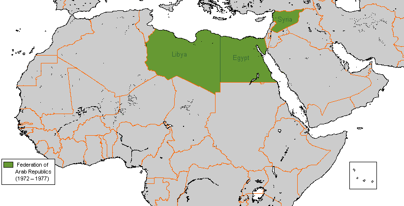 Map of the semi-nominal "Federation of Arab Republics" (Arabic: Arabic اتحاد الجمهوريات العربية ittiħād al-jumhūriyyāt al-`arabiyya, literally "Union of Arab Republics") from 1972-1977 (Egypt, Syria, Libya). For flag, see File:Flag of Egypt 1972.svg; for coat of arms, see File:Coat_of_arms_of_the_Federation_of_Arab_Republics.svg.